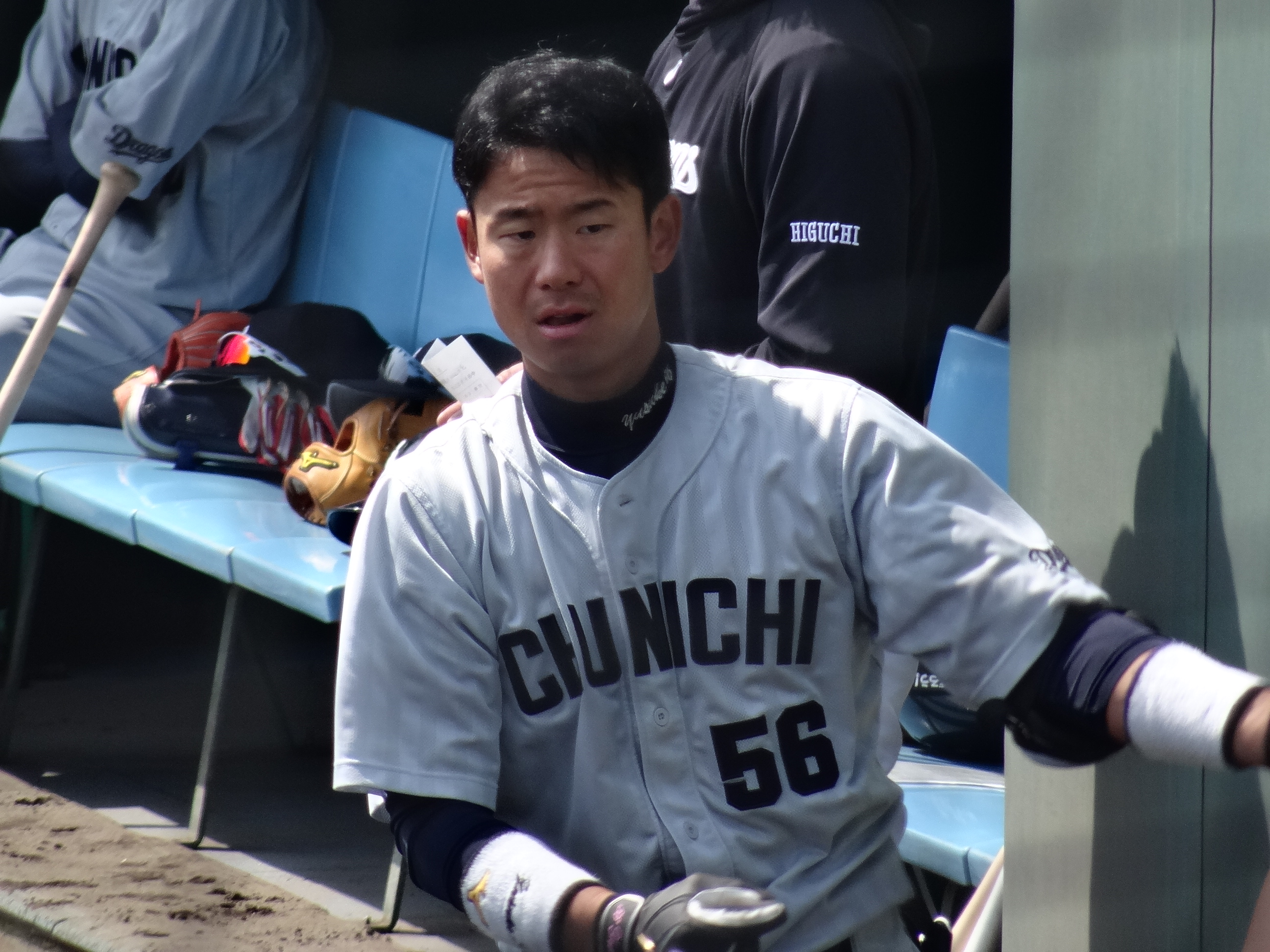 Yusuke Matsui, outfielder of the Chunichi Dragons, at Hanshin Naruohama Baseball Ground.